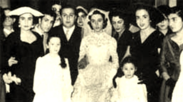 Mrs. Fayrouz and Mr. Assi Rahbani on their wedding day surrounded by members of their families; Fayrouz's younger sisters Hoda and Amal appear before the bride and bridegroom.